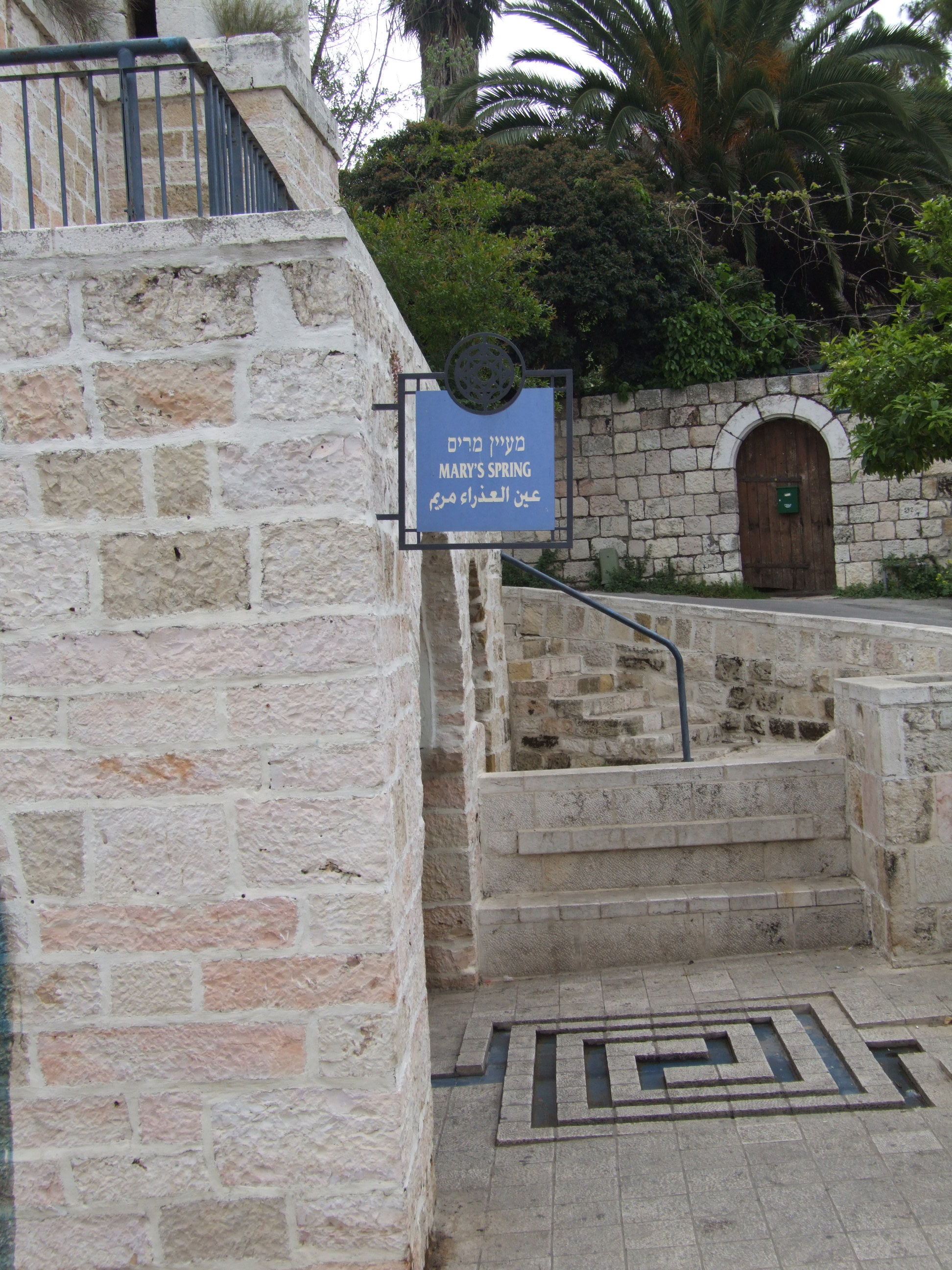 Mary's Spring in Ein Karem, Jerusalem, Israel.